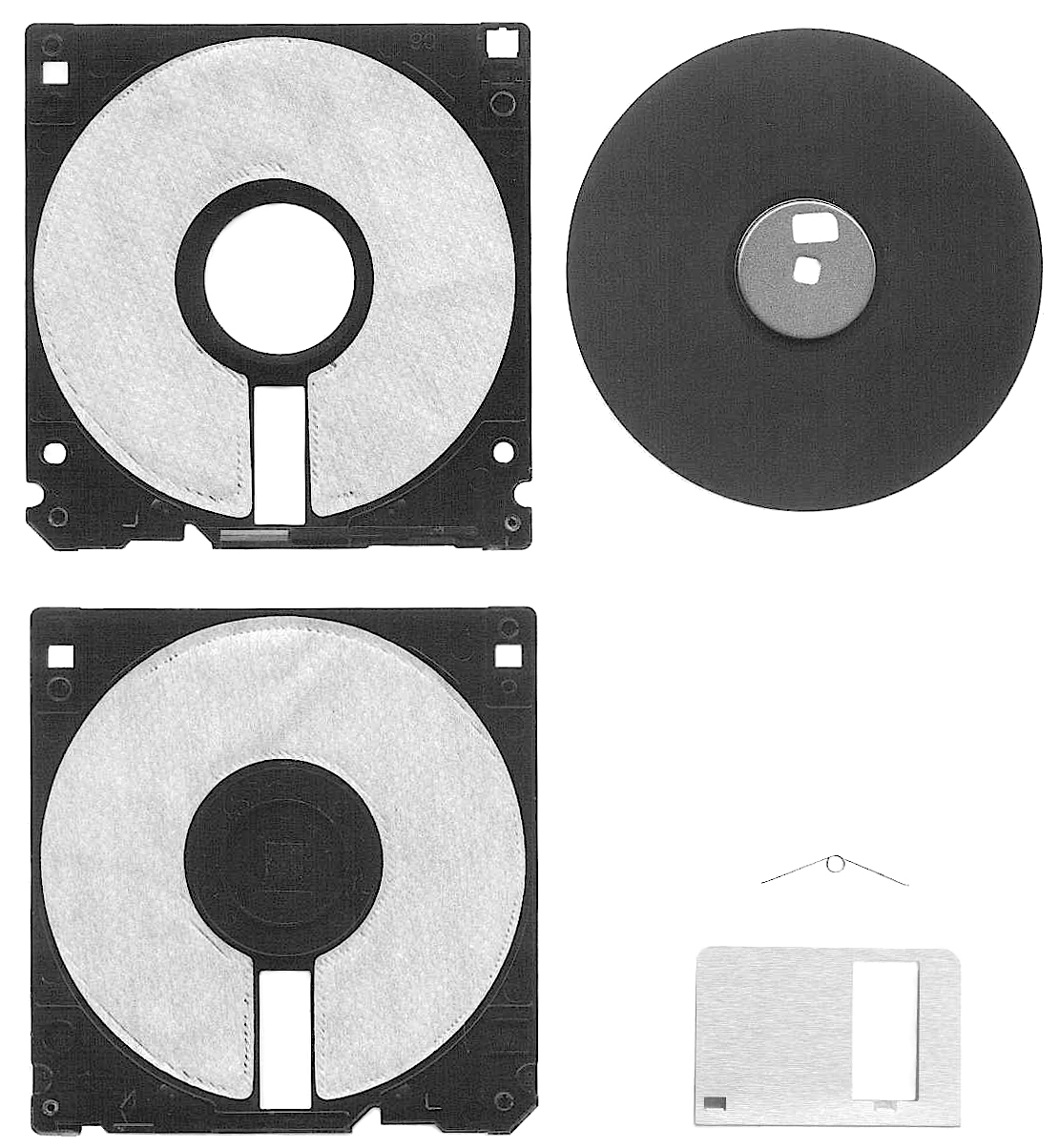 Disassembled 3,5" floppy disk.